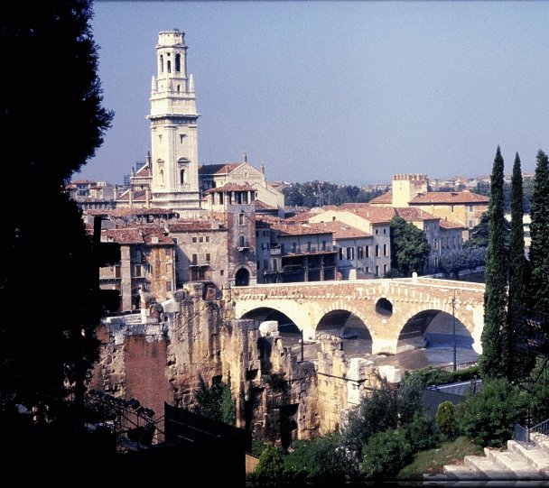 Ponte Pietra and Campanile del Duomo seen from the Roman Theatre